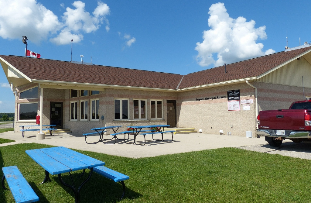 The terminal building at Hanover Saugeen airport near Hanover, Ontario, Canada.